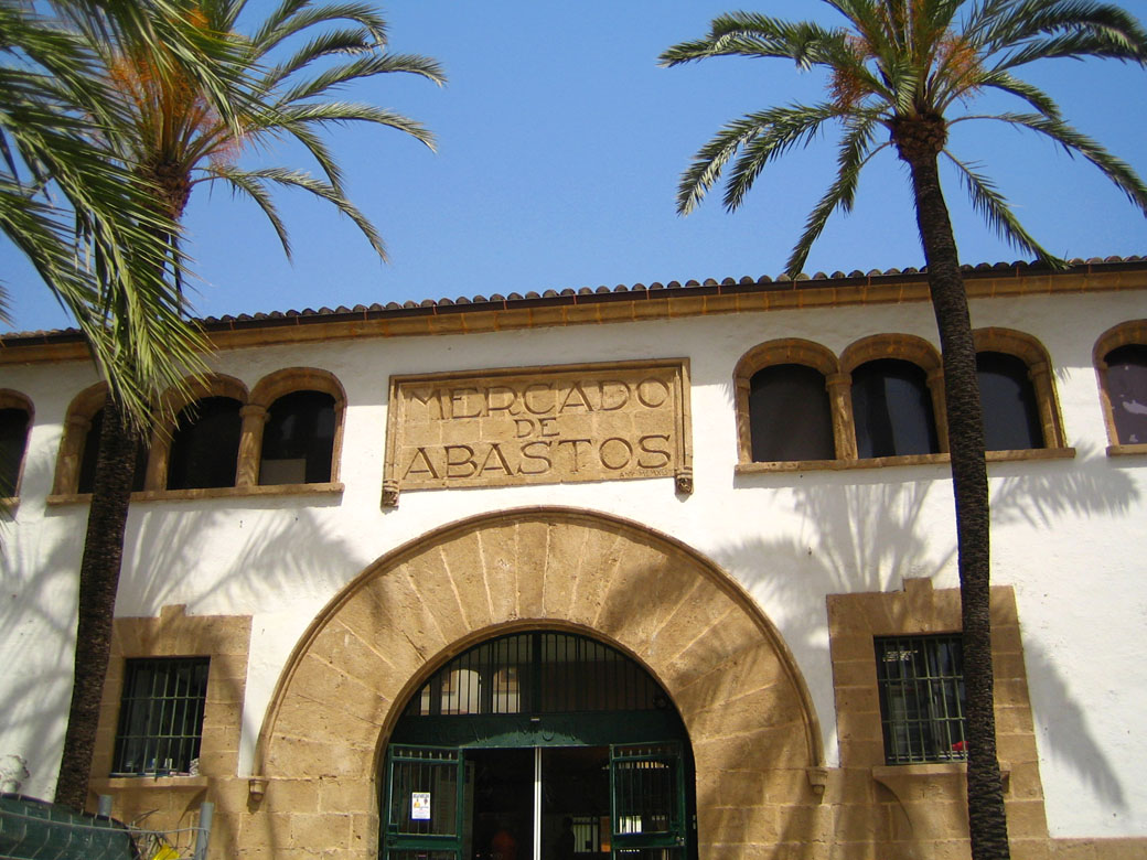 Xàbia market, in Xàbia, Valencia, Spain